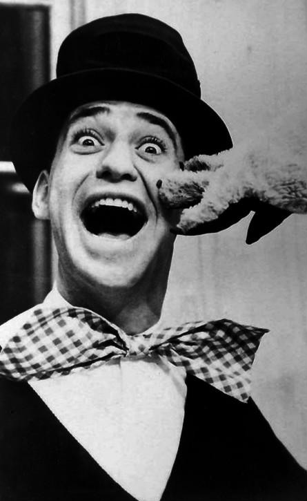 Postcard photo of Soupy Sales with photo from his television program. The photo is of him and the puppet White Fang. The card was sent to a young viewer in response to fan mail.